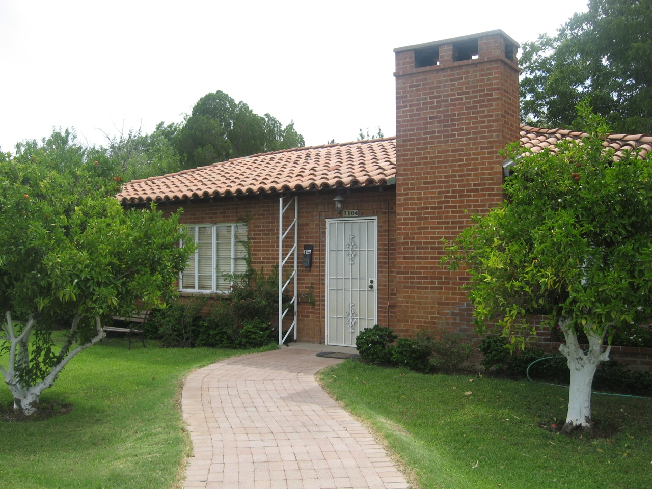 This house along Mill Avenue in Tempe is an excellent example of pre-World War II preferences towards ranch housing that would dominate Tempe after the war. It was built in 1940 and added to the National Register of Historic Places in 2005.